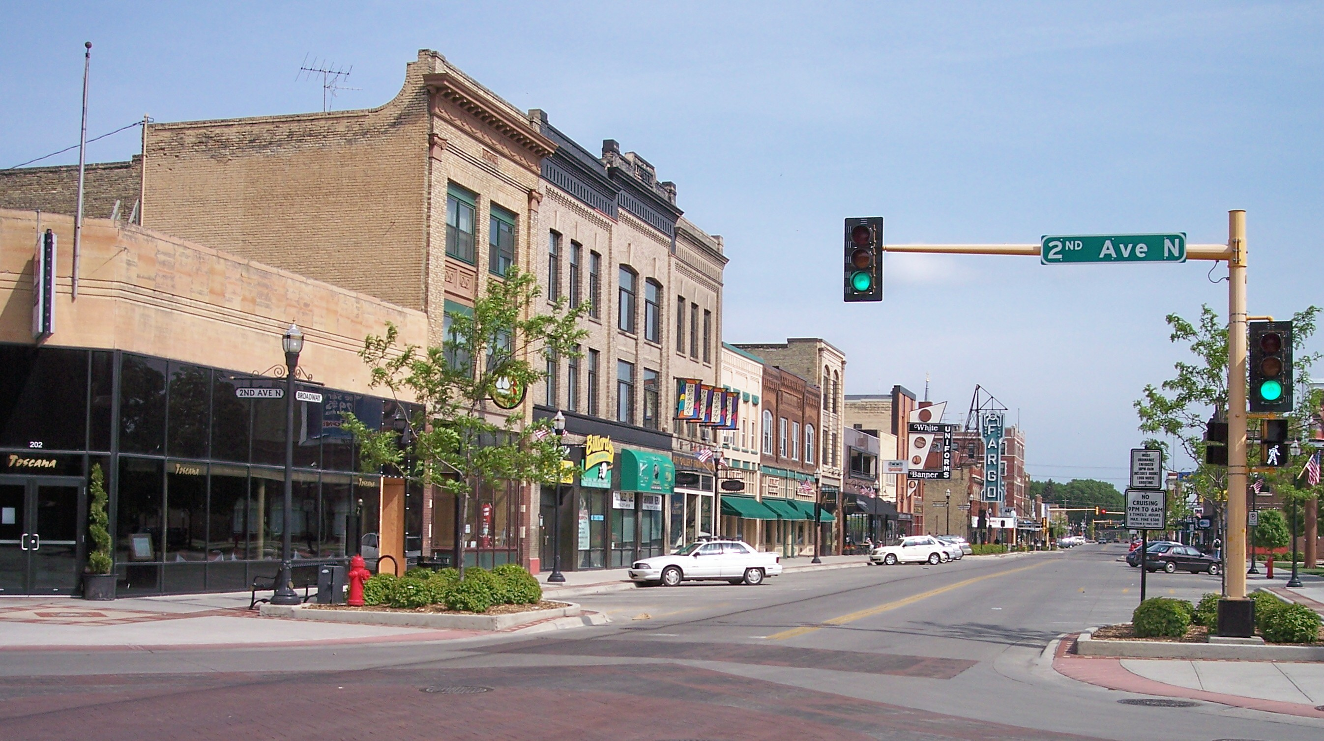 Broadway in downtown Fargo, North Dakota